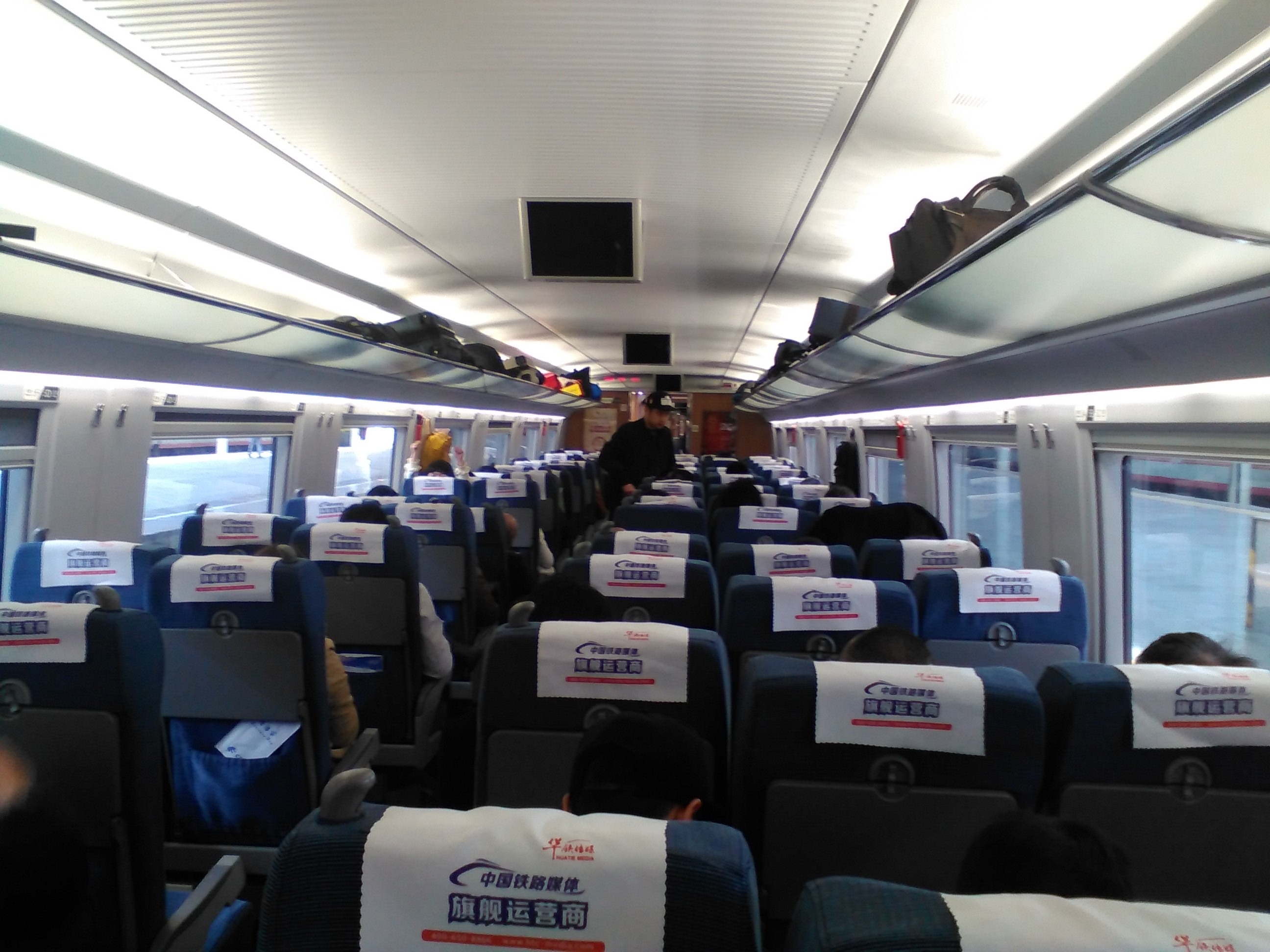 The Second Class Cabin of CRH380B.